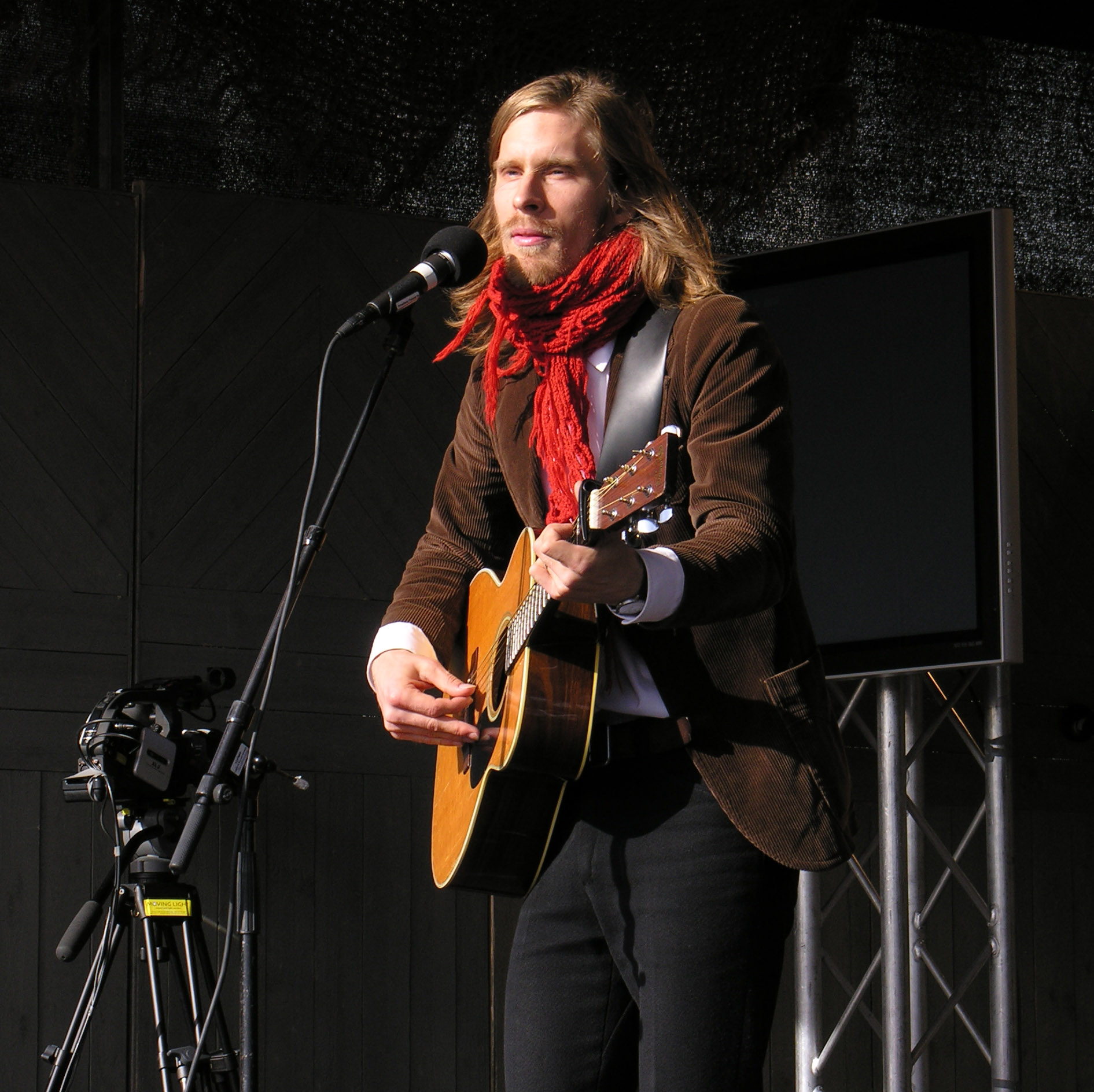 Matti Johannes Koivu, Finnish singer, Herring Market in Helsinki, 2008.